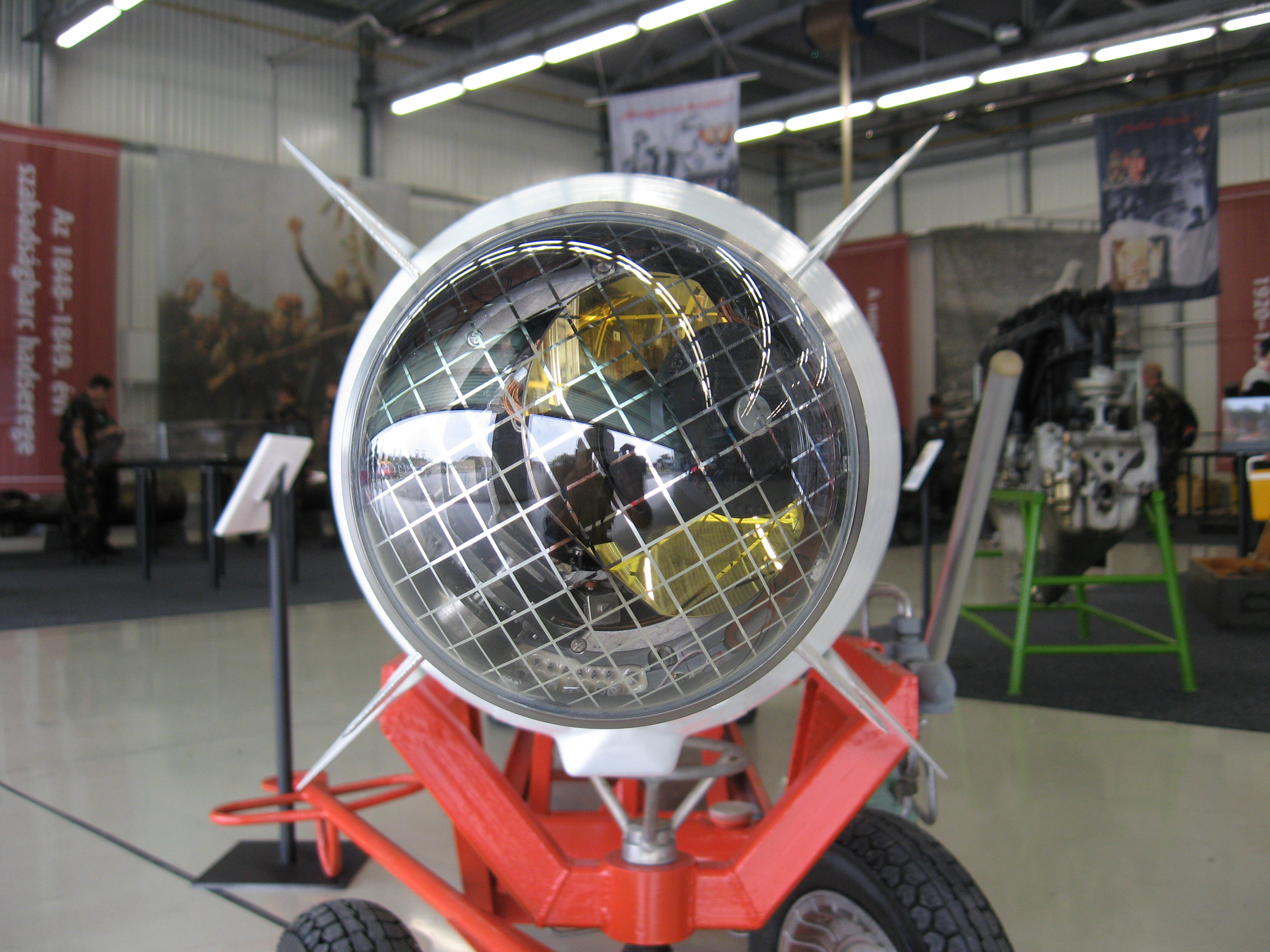 Laser seeker of a soviet-made Kh-29L air-to-surface missile, Kecskemét open day, 2008.